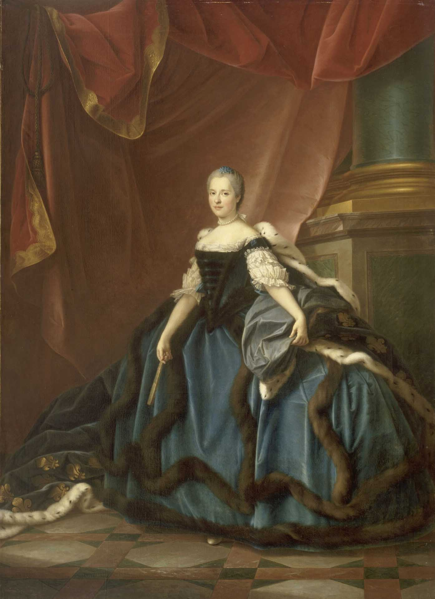 Portrait of Marie Josèphe of Saxony (1731–1767), Dauphine of France